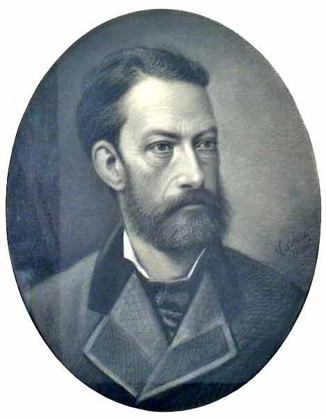 portrait of Martins Sarmento